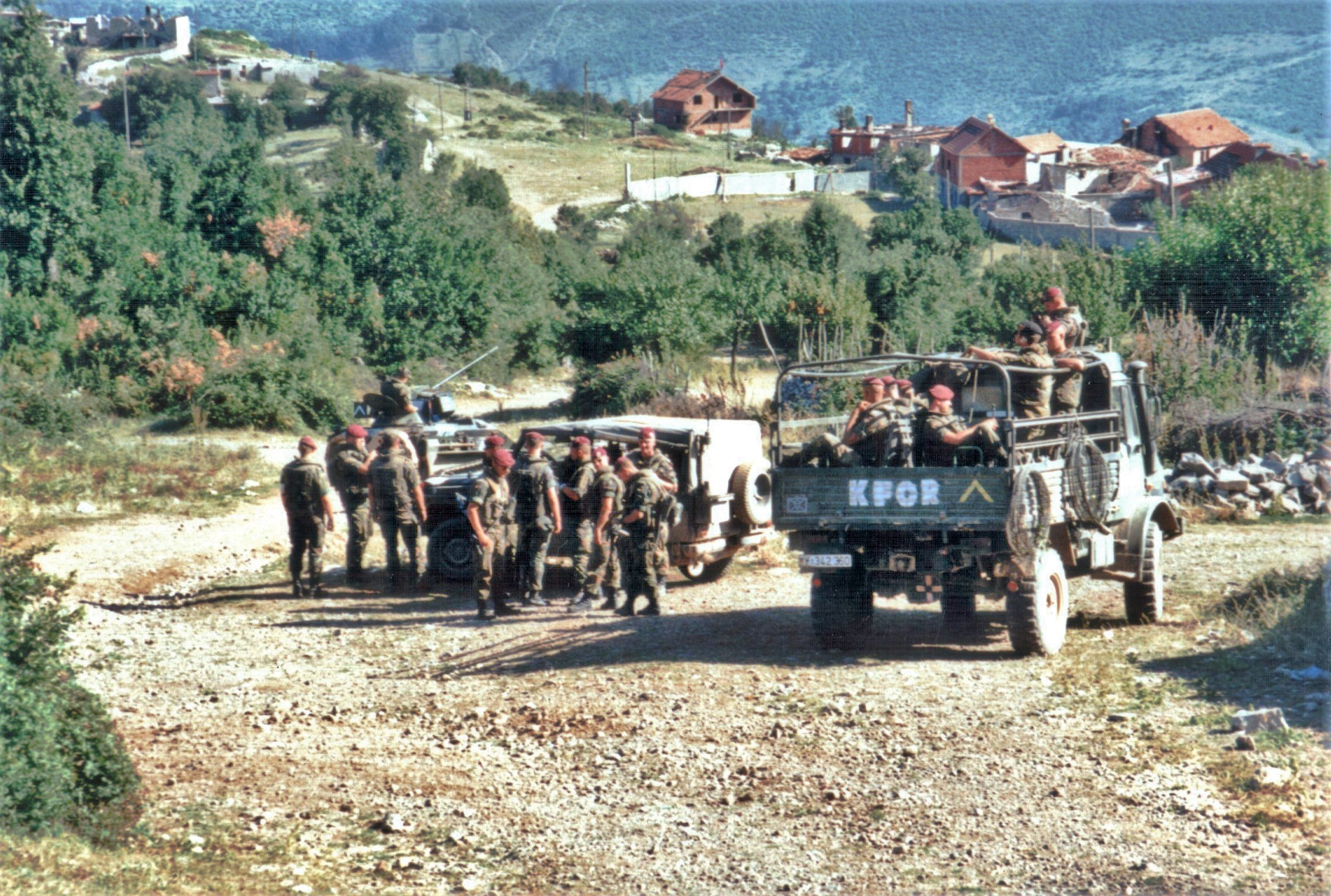 German KFOR troops patrol southern Kosovo in the Summer of 1999